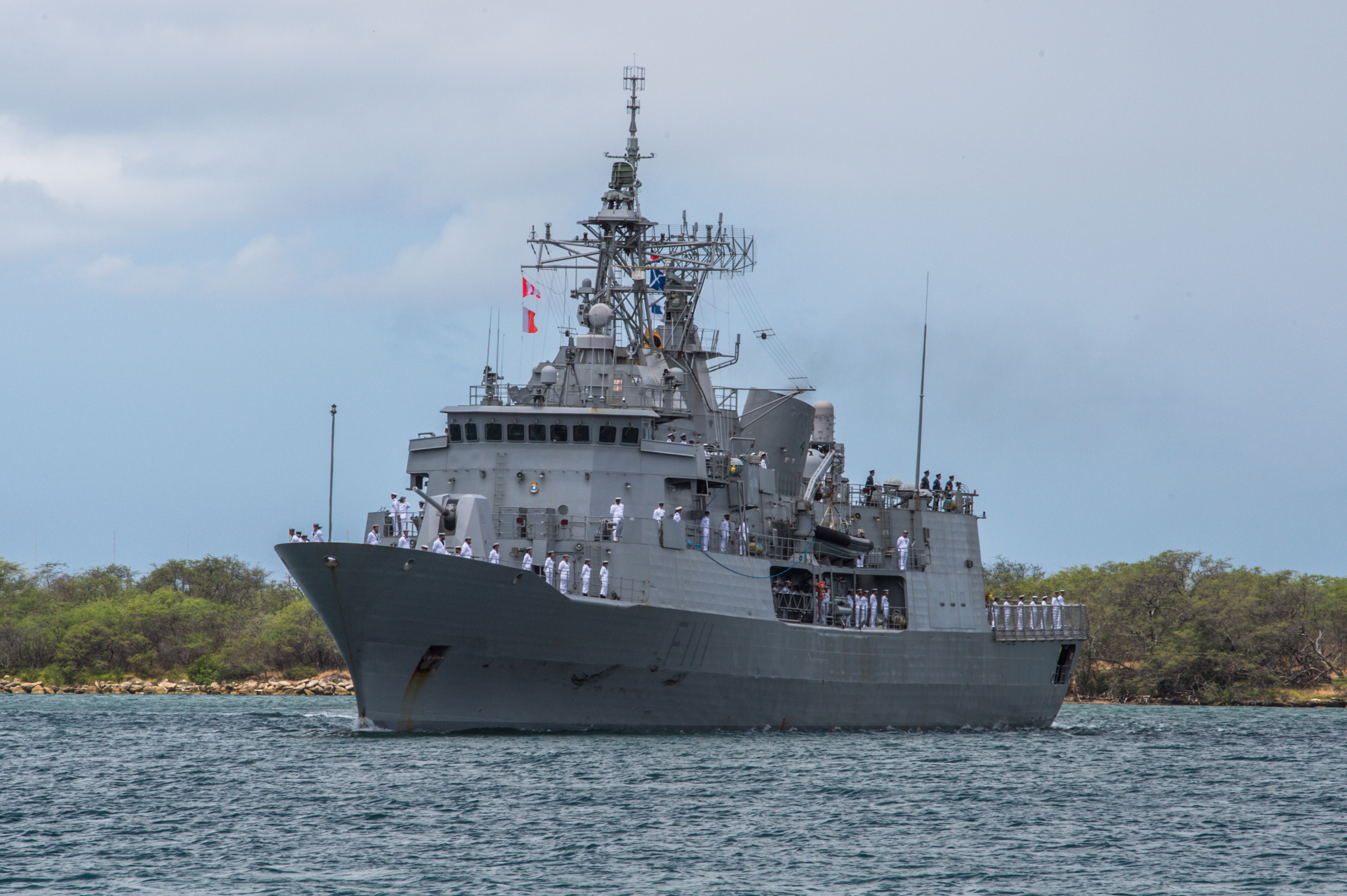 180626-N-FV745-0106 PEARL HARBOR (June 26, 2018) Royal New Zealand Navy frigate HMNZS Te Mana (F111) arrives at Joint Base Pearl Harbor-Hickam in preparation for Rim of the Pacific (RIMPAC) 2018. Twenty-six nations, more than 45 ships and submarines, about 200 aircraft and 25,000 personnel are participating in RIMPAC from June 27 to Aug. 2 in and around the Hawaiian Islands and Southern California. The world’s largest international maritime exercise, RIMPAC provides a unique training opportunity while fostering and sustaining cooperative relationships among participants critical to ensuring the safety of sea lanes and security of the world’s oceans. RIMPAC 2018 is the 26th exercise in the series that began in 1971. (U.S. Navy photo by Mass Communication Specialist 2nd Class Daniel James Lanari/Released)